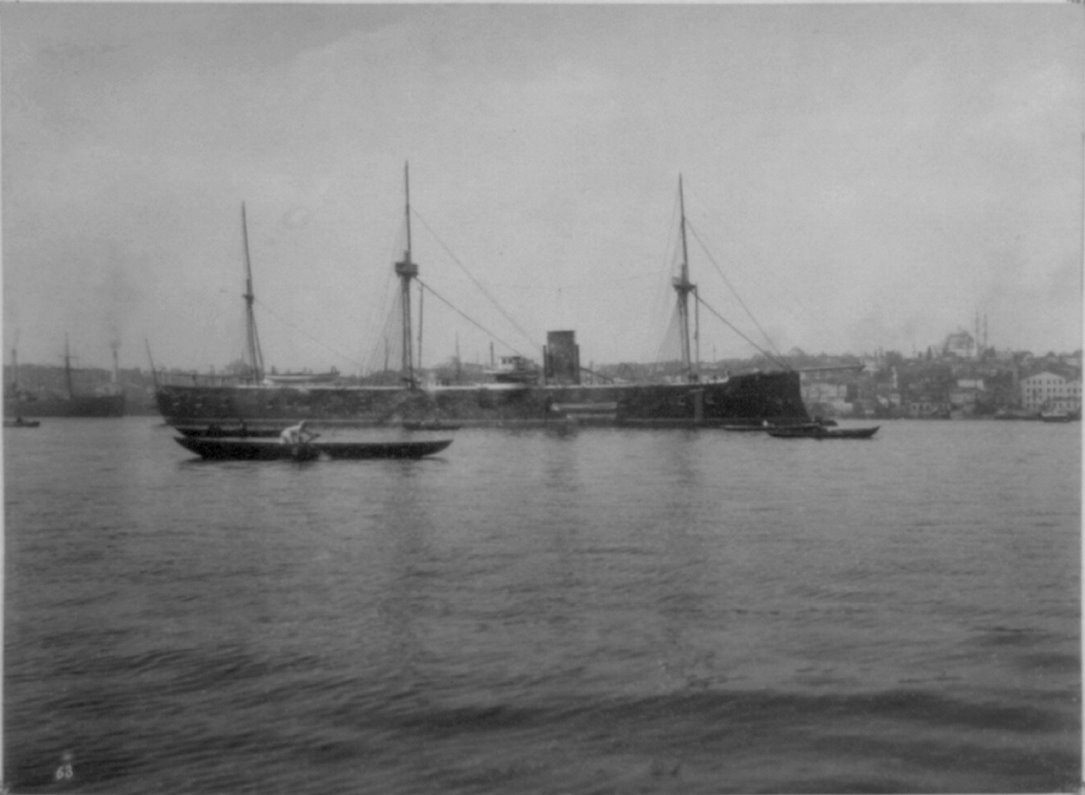 The Ottoman Ironclad Asar-i Tewfik. It was launched in 1868 and served until it was lost in 1913.[In the records of the Library of Congress the image is captioned in Ottoman Turkish and French "The Imperial Ironclad Frigate Asar-i Şevket", and is stated to have been taken in Constantinople.]